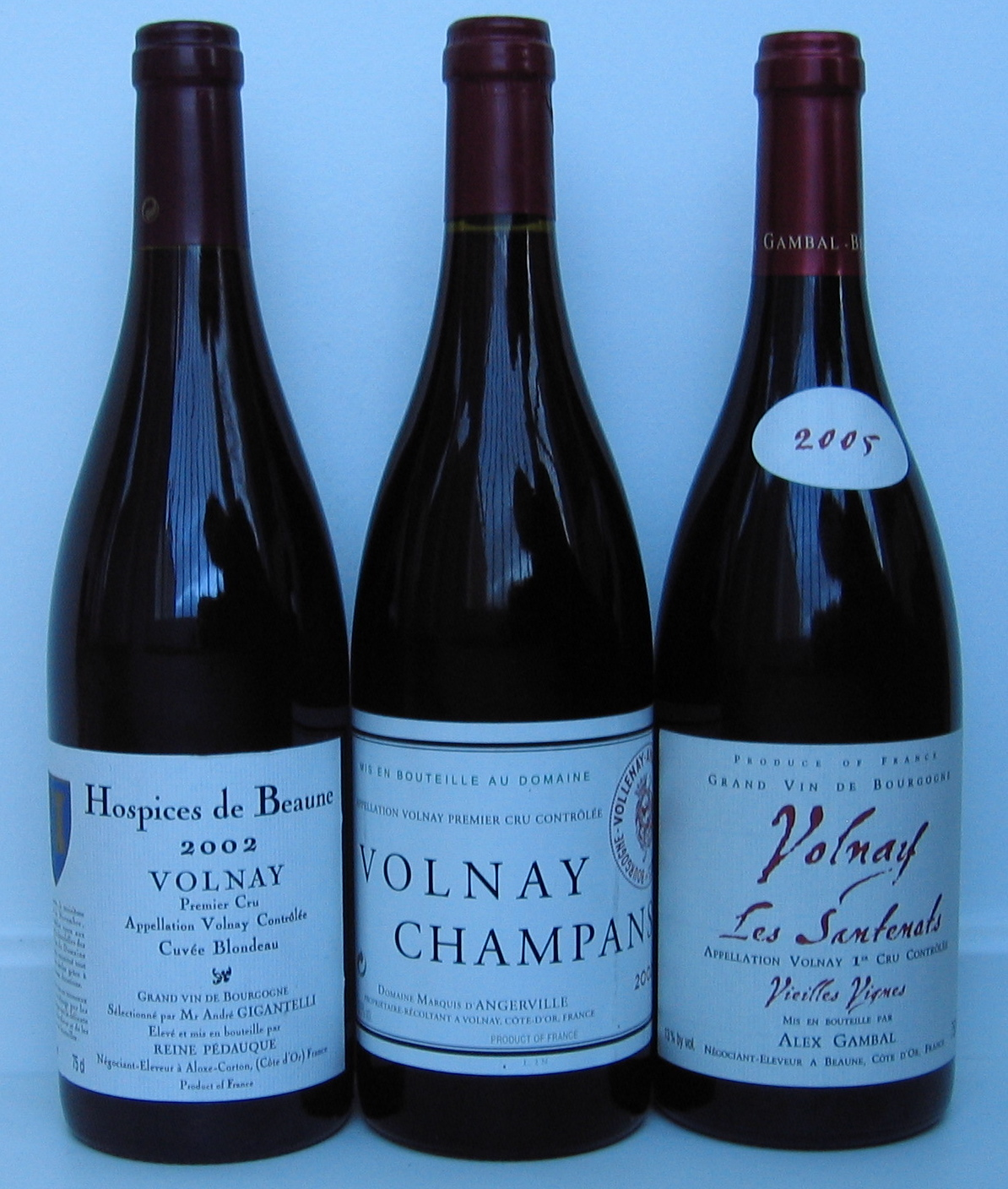 Three bottles of Premier Cru wines from Volnay in Burgundy. One bears the name of a cuvée instead of a specific vineyard, one is from a named vineyard, and one is from Volnay-Santenots, which means that it actually is from the next village, Meursault.